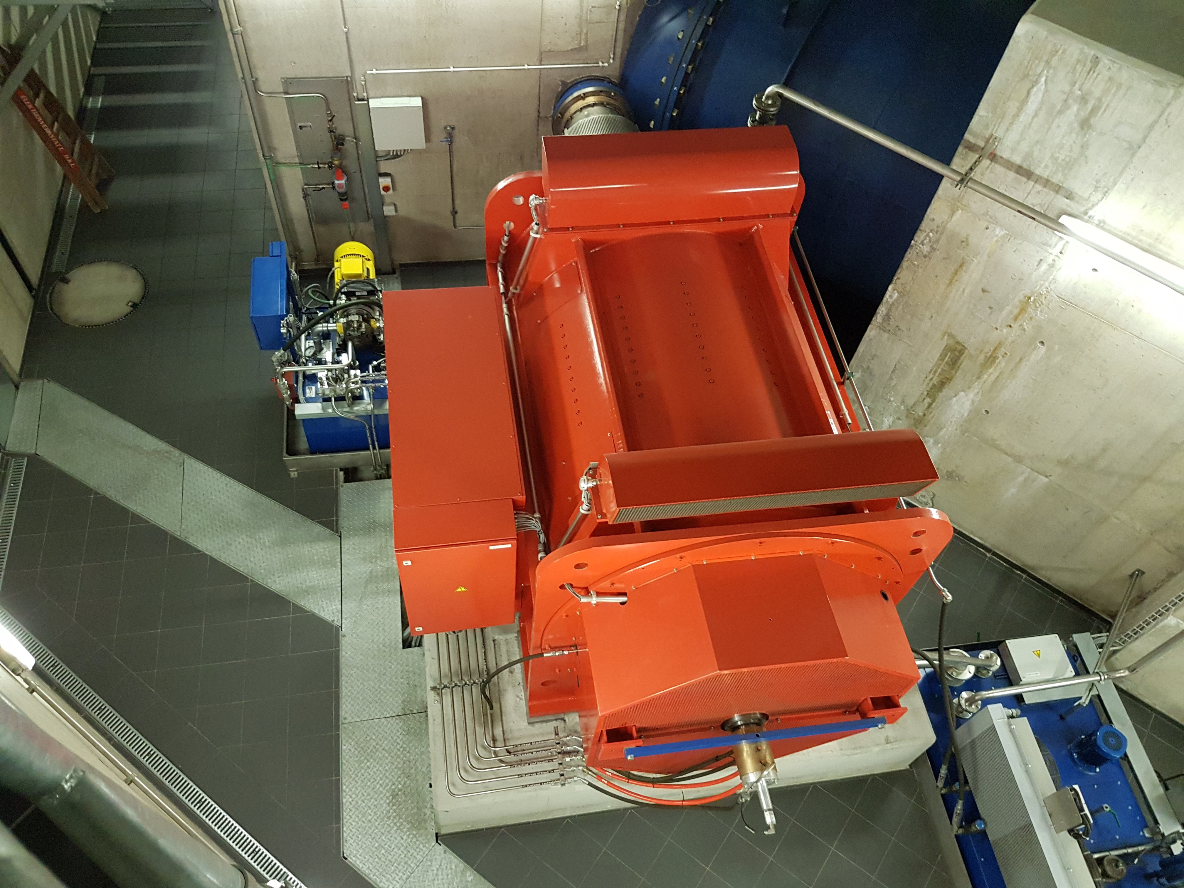 A picture of a hyrdopower generator in Data Center Light, Switzerland